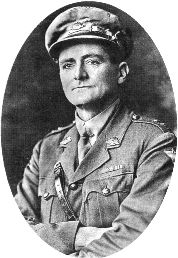 Portrait of Lt. Albert Chalmers Borella, VC, 26th Battalion, Australian Imperial Force.